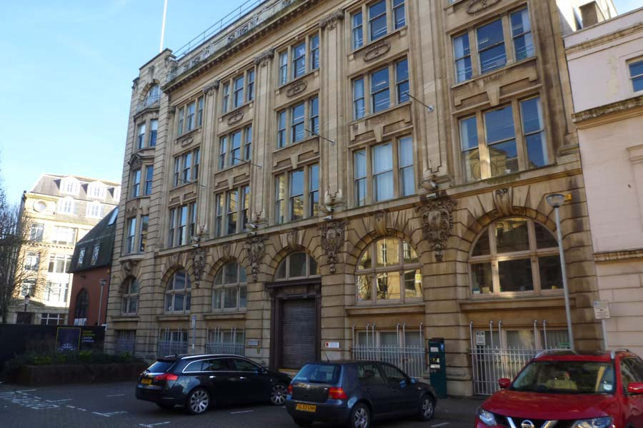 Baltic House, Mount Stuart Square, Cardiff Bay - a Grade II listed office building (1915) by architects Teather and Wilson. Directly opposite the main entrance to Cardiff Coal Exchange.